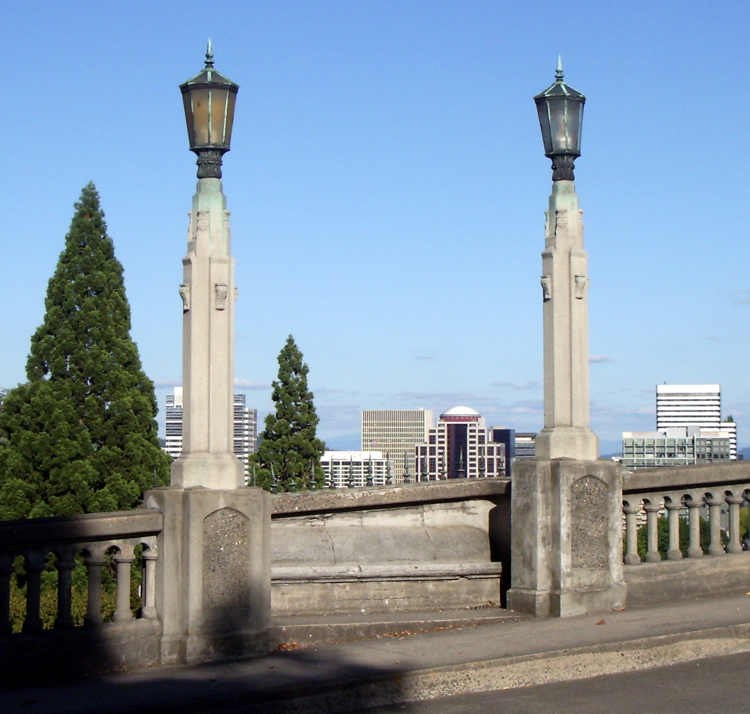 View of east rail of Vista Bridge in Portland, Oregon showing 1925 detail for streetlights and bench. There are four such features on the bridge, plus two additional lights.